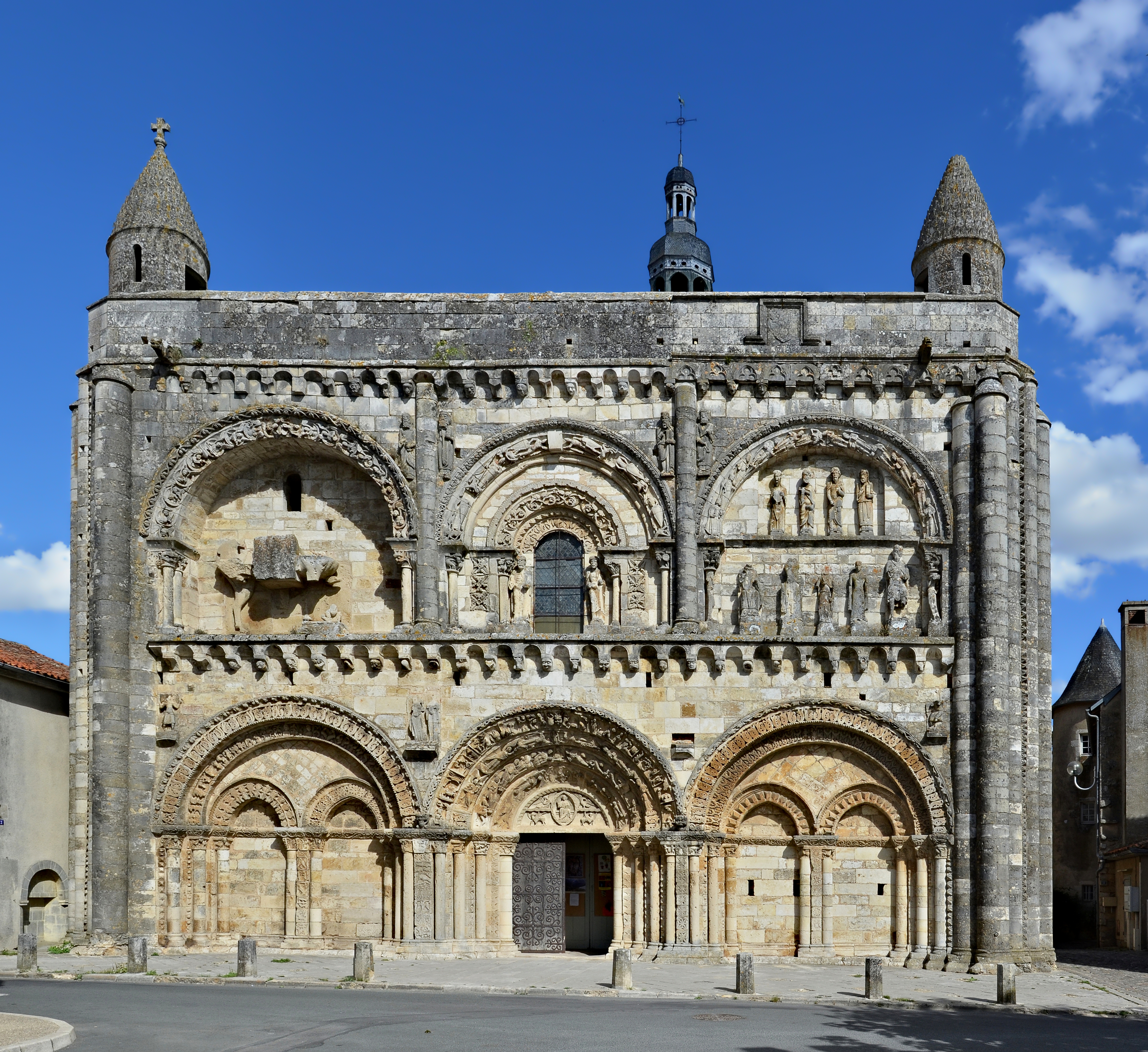 Facade of church of Saint-Nicolas (12th century), Civray, Vienne, France. .